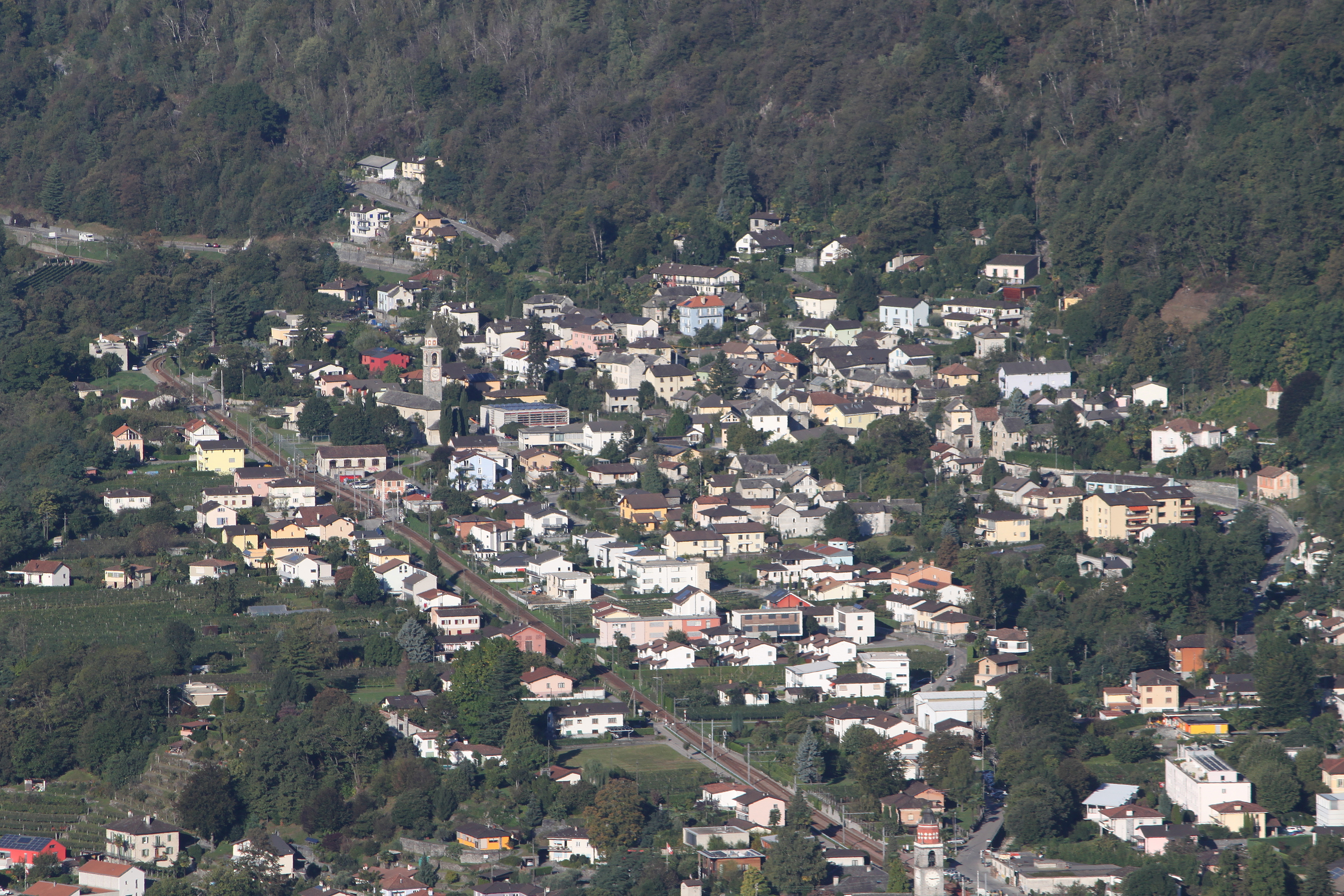 View of Cavigliano.